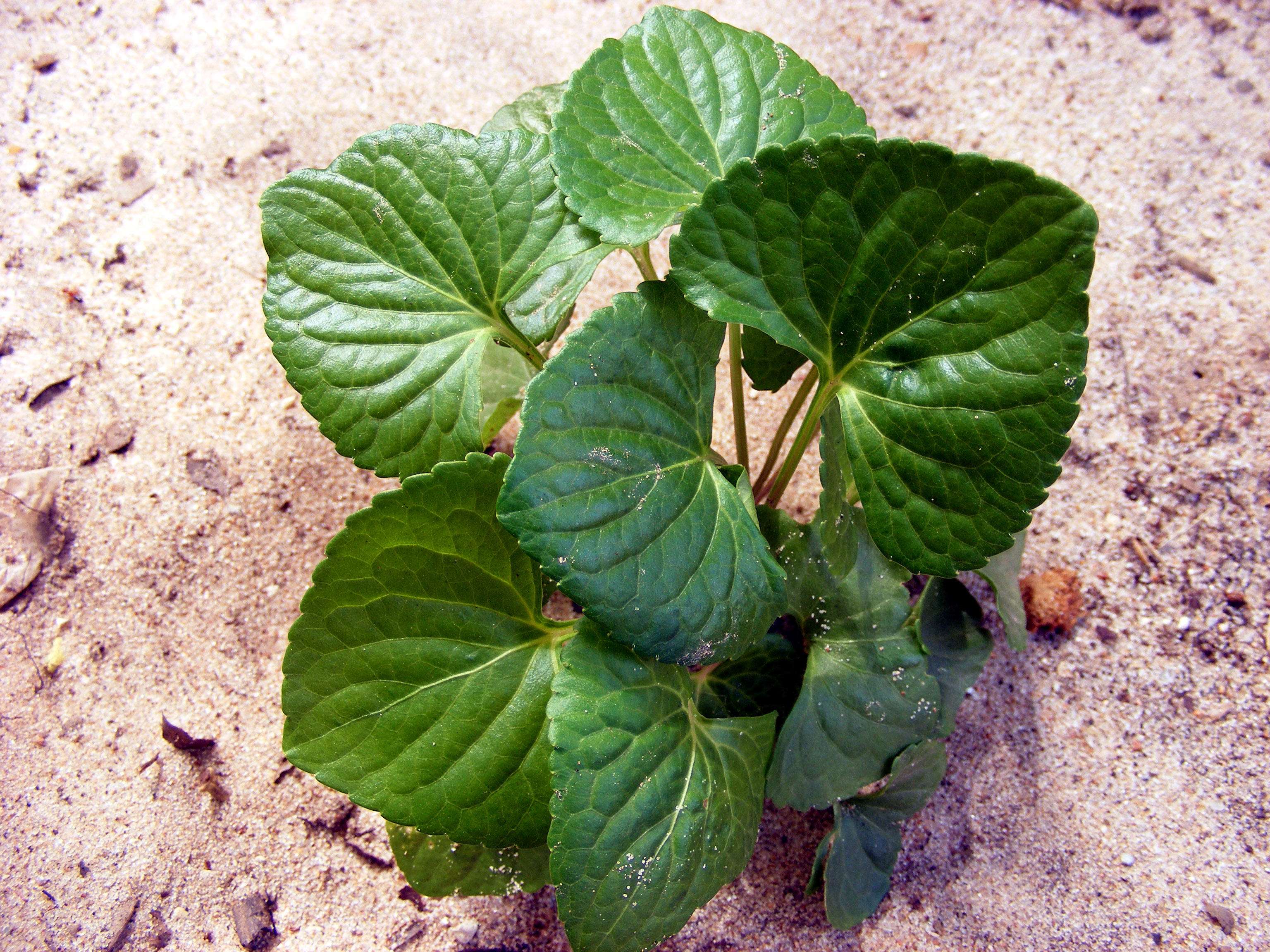 A Whatever this name Dollarweed means, the plant shown is not Hydrocotyle umbellata